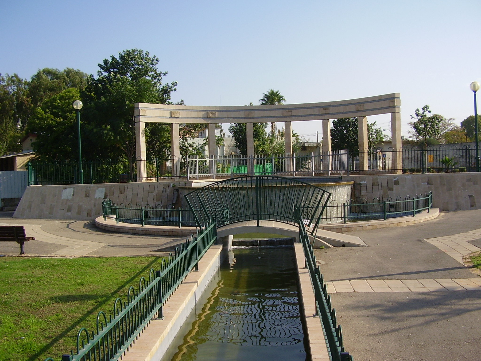 park shalem (former- the center of kfar salame) in tel aviv